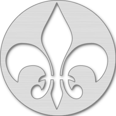 image created by me on the 26th august 2006